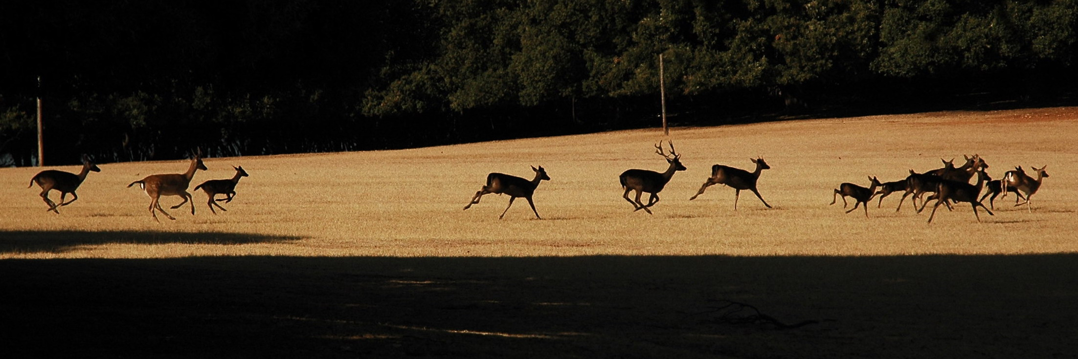 Galop - high speed exposure